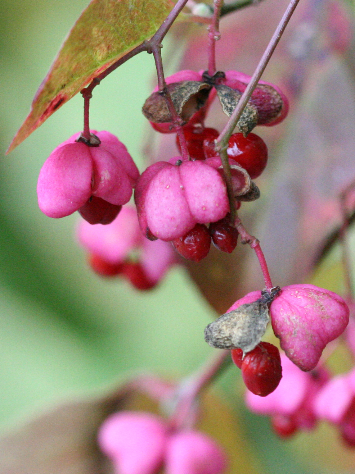 Euonymus europaeus - Town of Skaneateles, Onondaga County, New York